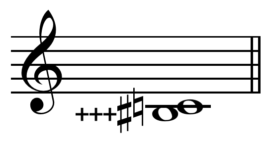 Pythagorean comma on C = B♯+++ (Ben Johnston's notation). 531441:524288 = 23.46 cents. Limit: 3-limit. Note that the note depicted lower on the staff is slightly higher in pitch.